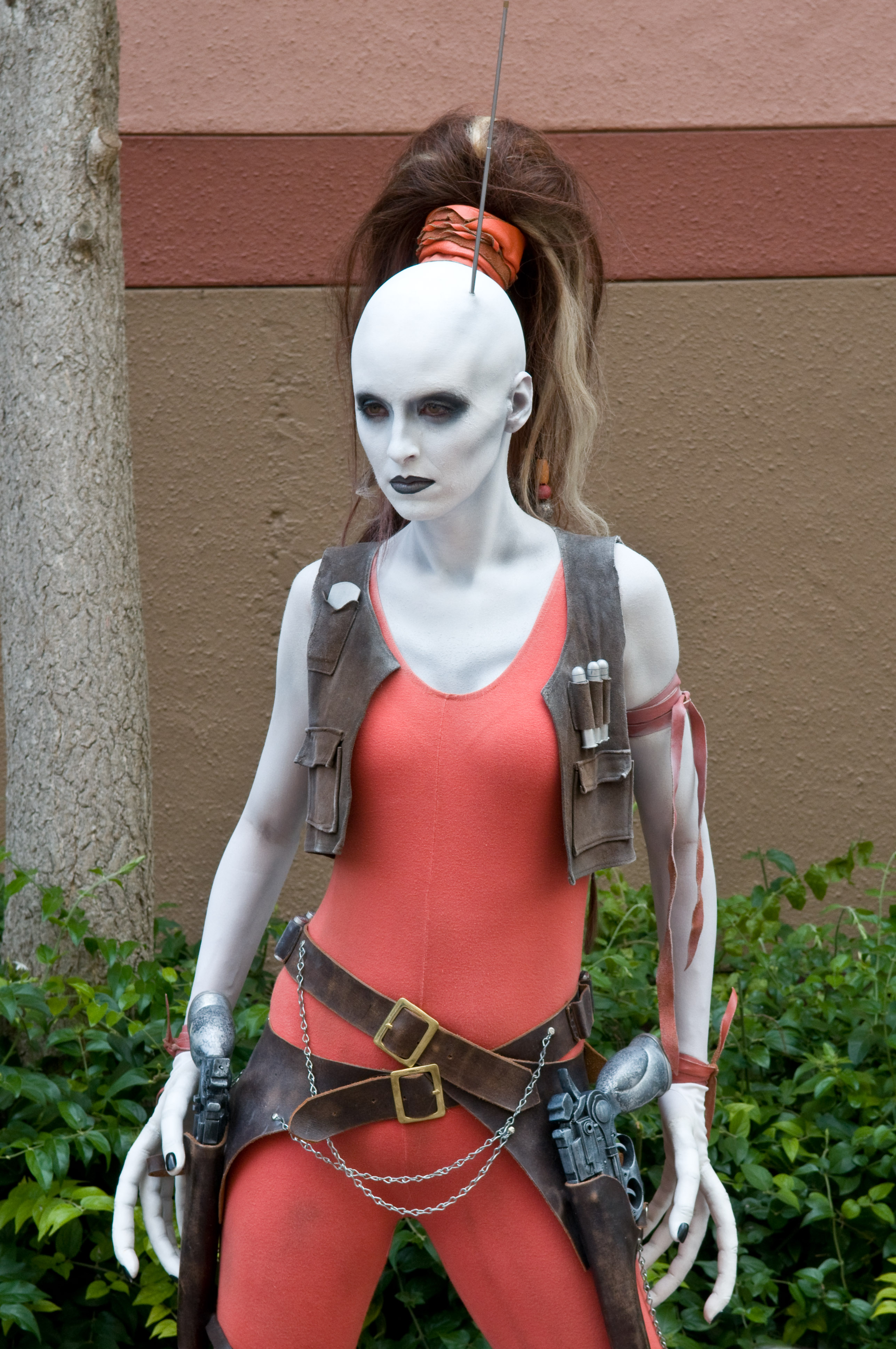 Aurra Sing, the bounty hunter - Star Wars Weekends - Disney Hollywood Studios